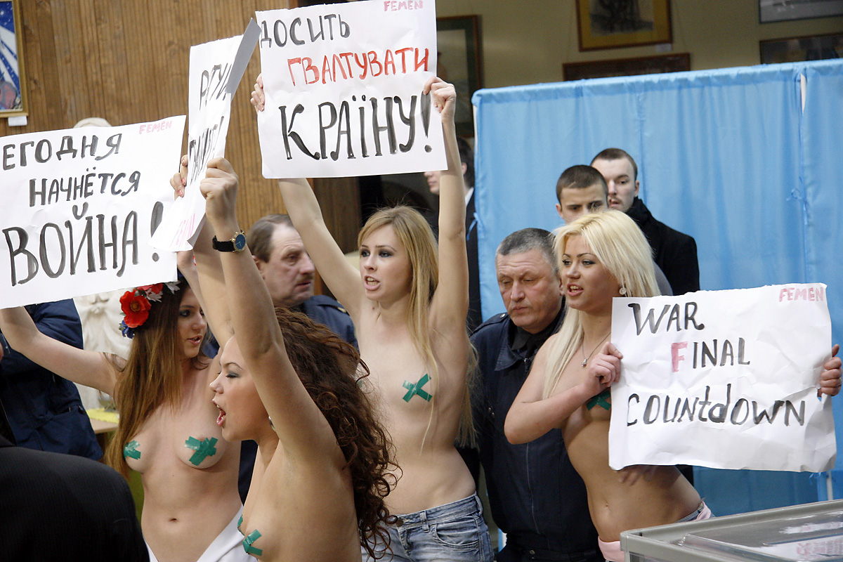 Members of the activist group Femen protest at what they see as the manipulation of the democratic system at a polling station in Kiev, Ukraine, Sunday, Feb. 7, 2010. The signs read "The War Begins Today" and "Stop Raping the Country."